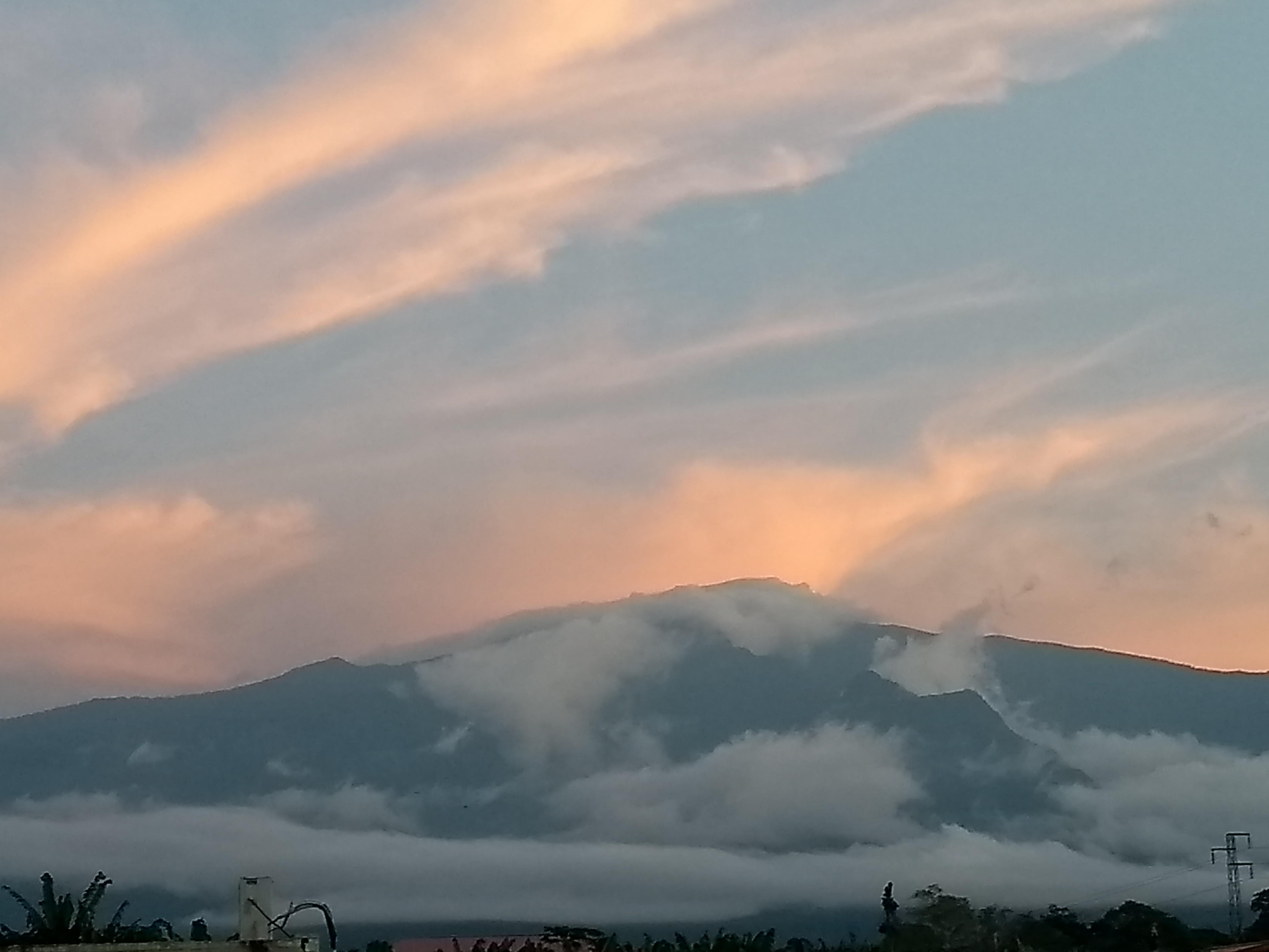 This is an image with the theme "Play" from: Equatorial Guinea